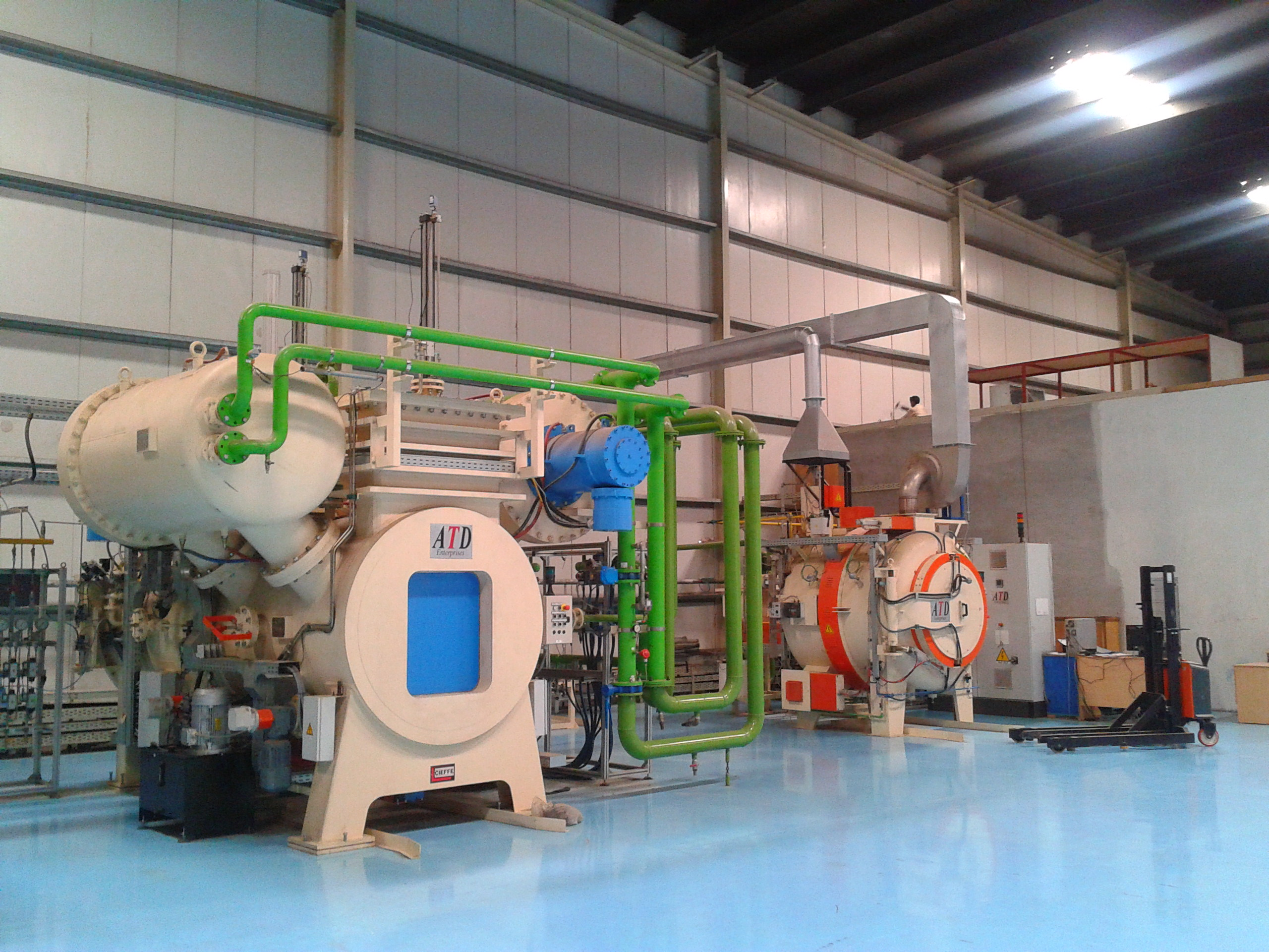 A computer controlled furnace for nitriding and carburizing steel